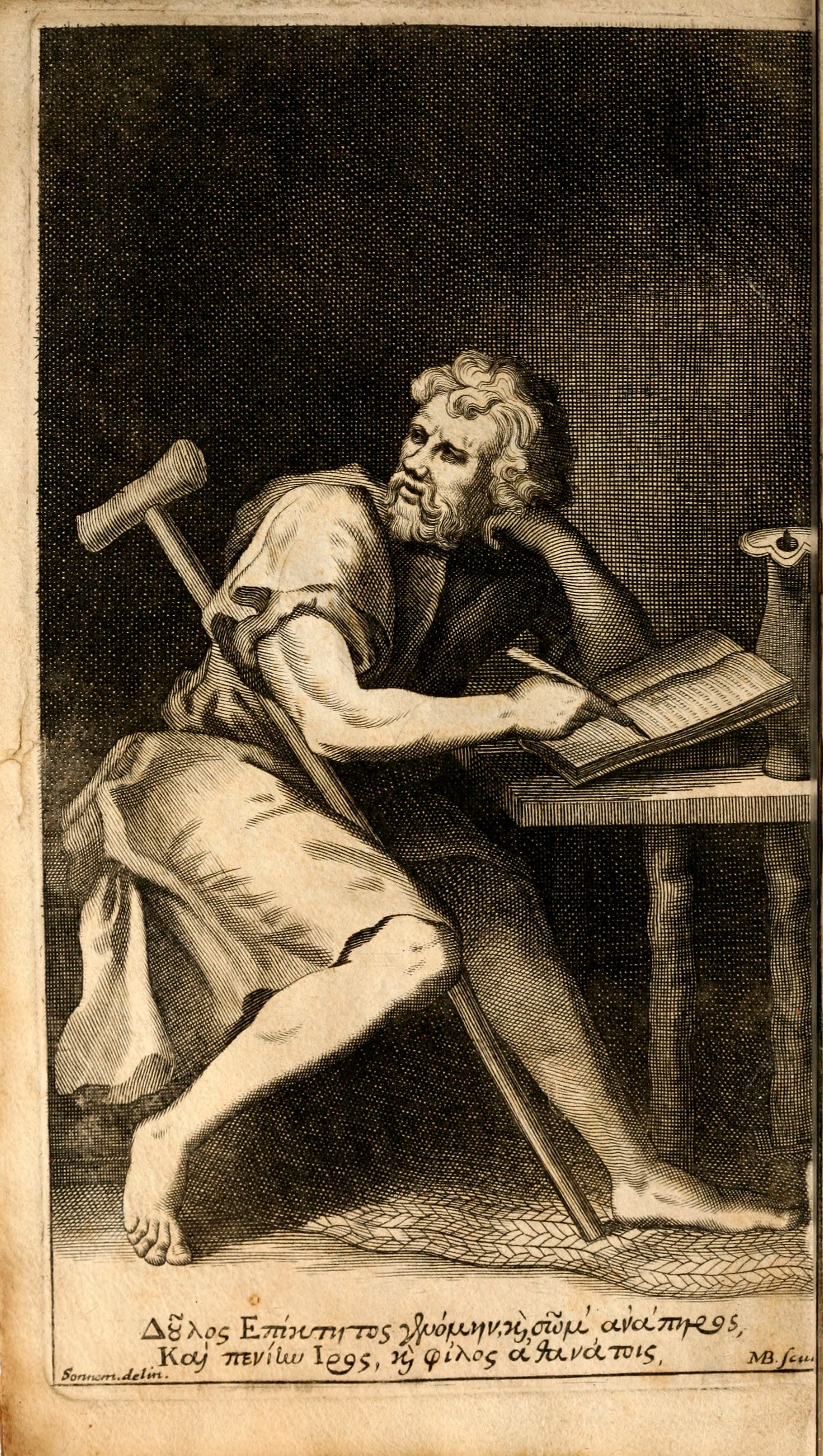 Imaginary portrait of Epictetus. Engraved frontispiece of Edward Ivie’s Latin translation (or versification) of Epictetus’ Enchiridon, printed in Oxford in 1715. Original title of the book: “Epicteti Enchiridion Latinis versibus adumbratum. Per Eduardum Ivie A. M. Ædis Christi Alumn. […] Oxoniæ, Theatro Sheldoniano, MDCCXV. […]” The subscription is an epigramm from the Anthologia Palatina (VII 676) and reads: Δοῦλος Ἐπίκτητος γενόμην, καὶ σῶμ’ ἀνάπηρος, καὶ πενίην Ἶρος, καὶ φίλος ἀθανάτοις. “I was Epictetus the slave, and not sound in all my limbs, and poor as Irus, and beloved by the gods.” (Irus is the beggar in the Odyssey.)